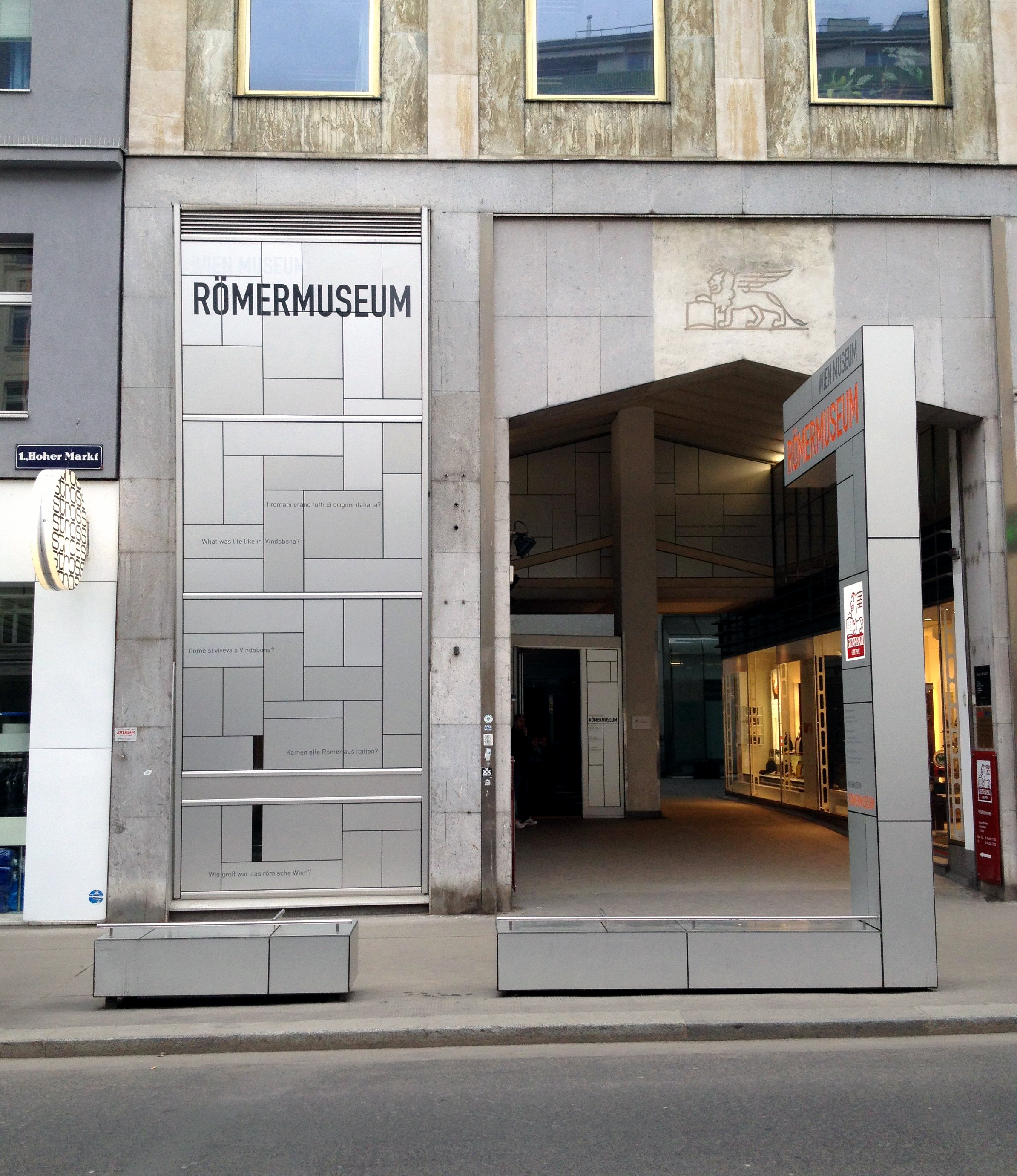 Entrance of the Roman Museum Vienna.